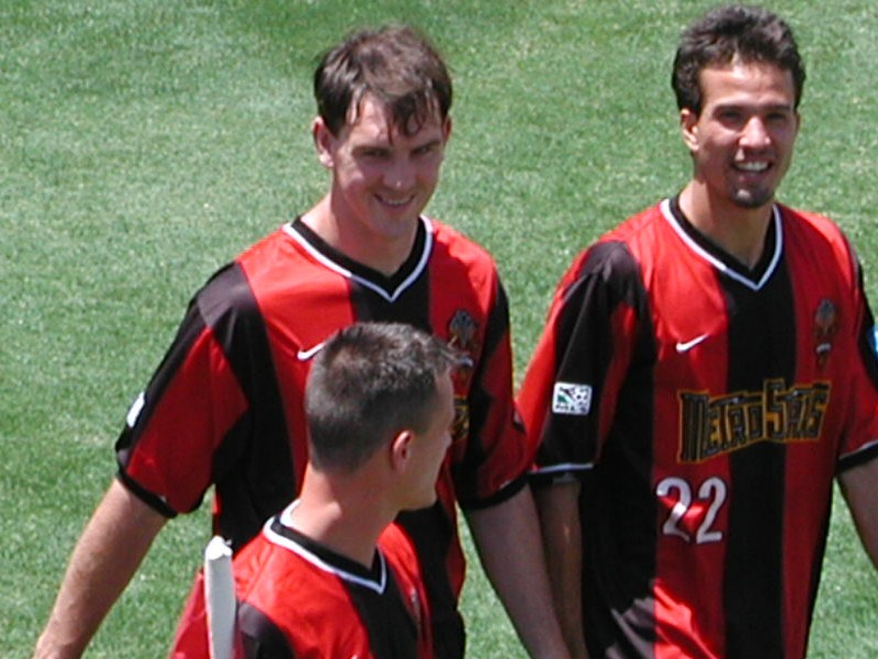 Billy Walsh is the guy to the left of Rodigo Faria